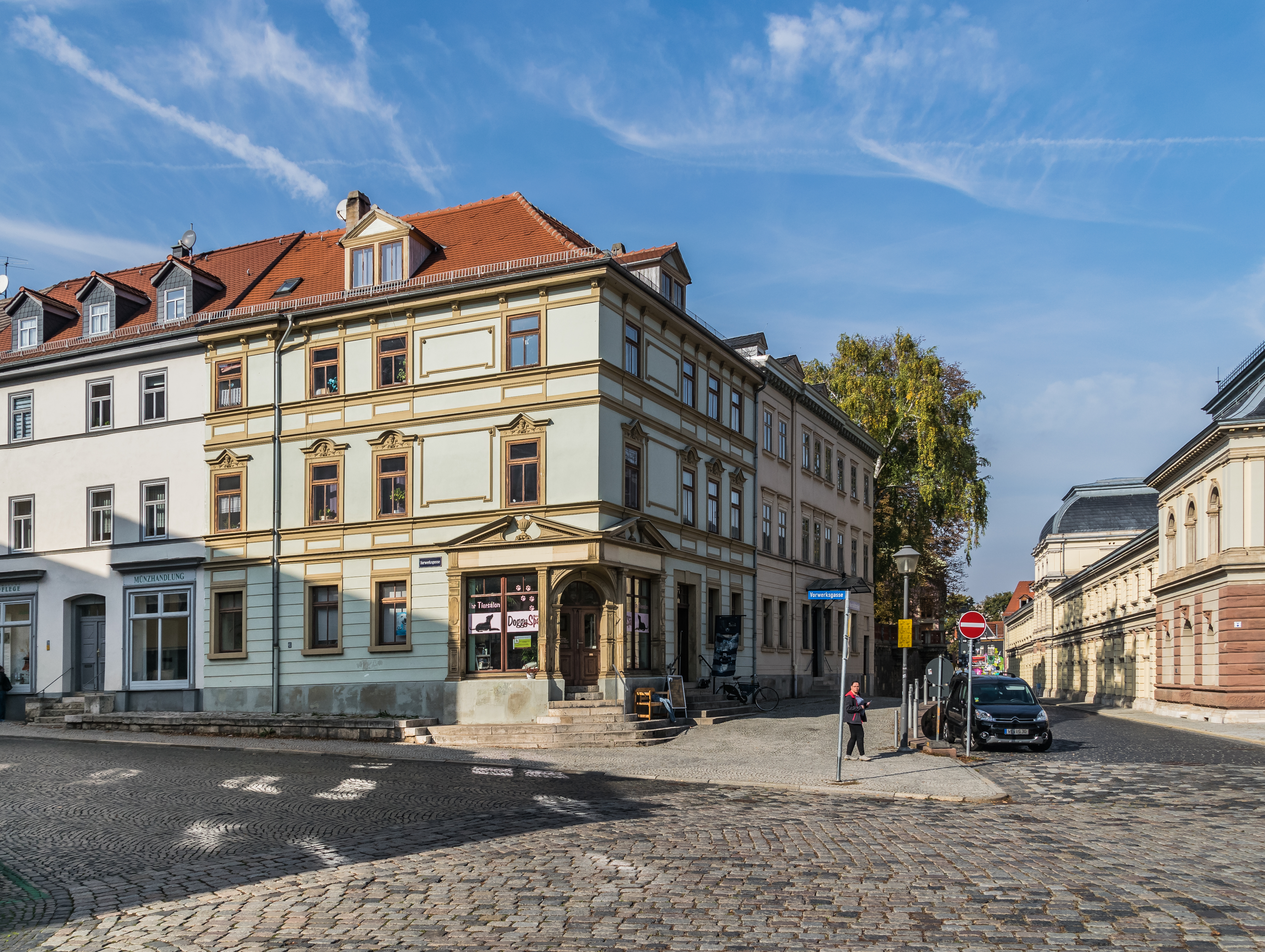 Building at Marstallstraße 1 in Weimar, Thuringia, Germany